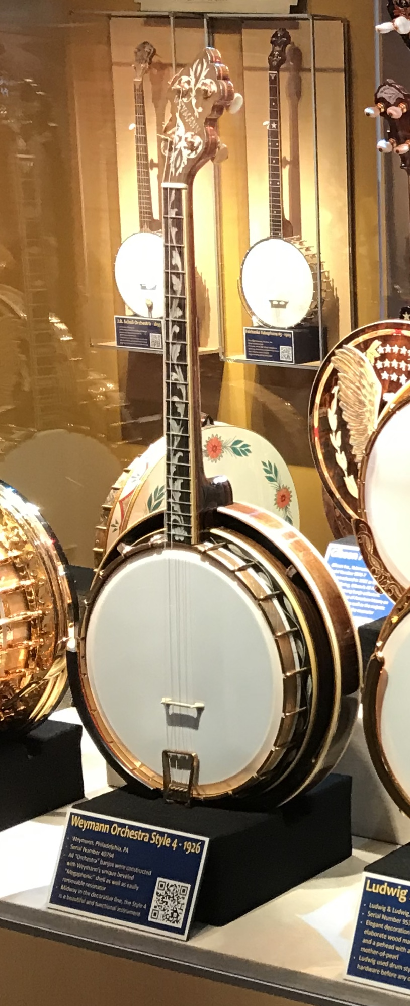 Weymann Orchestra Style 4 banjo (1926), in a case highlightingExamples of Jazz Age banjos at the American Banjo Museum